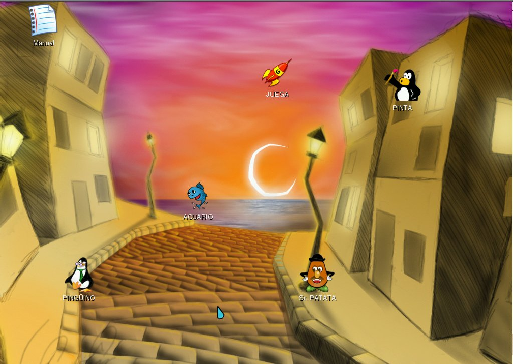 Educanix GNOME Desktop